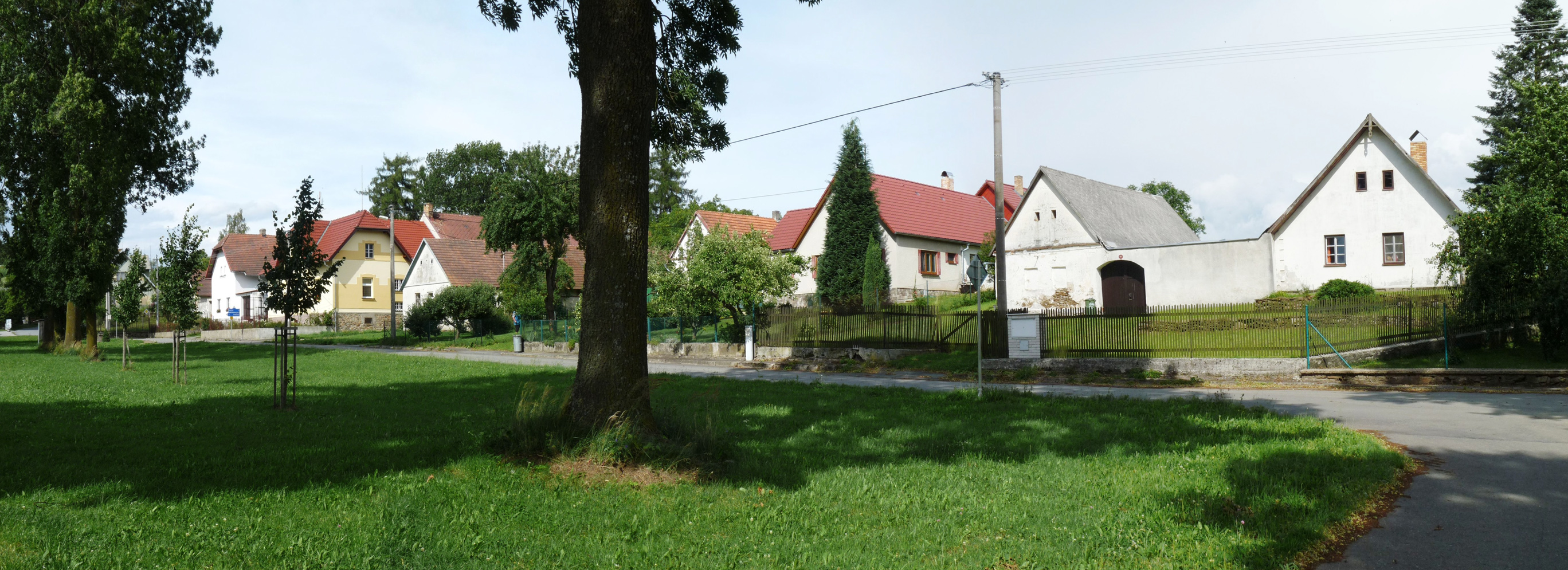 Houses on the village green in the municipality of Vodice, Tábor District, South Bohemian Region, Czech Republic.